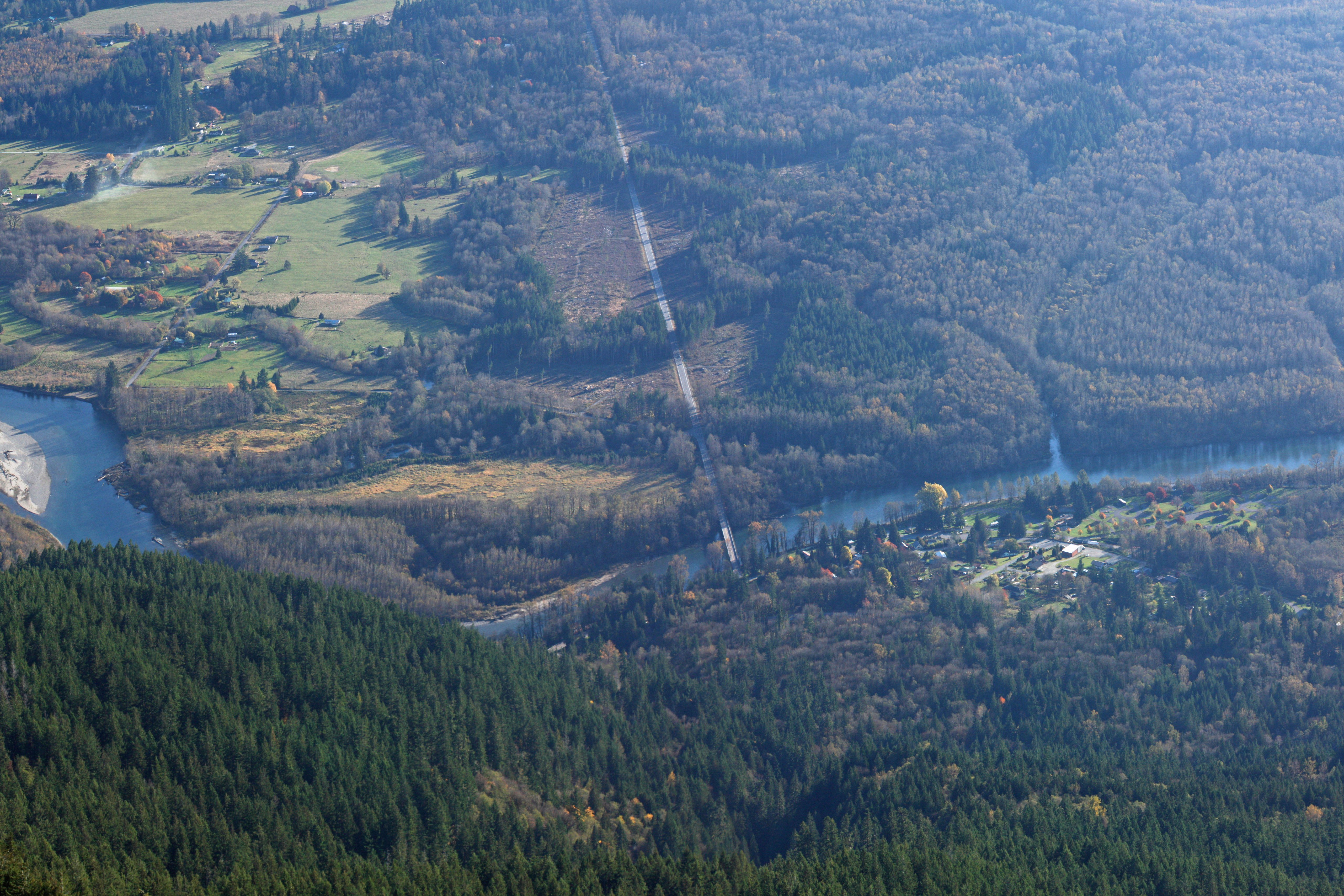 Skagit River Washington State Route 530 (center); Rockport, Washington (lower right); Martin Road (left); Rockport Cascade Road (upper left) Stitched panorama: Please see "Other versions" for source images. This image was created with Hugin. Viewpoint location: Sauk Mountain Trail #613, Mount Baker-Snoqualmie National Forest Viewpoint elevation: 1601 meter (5252 ft) View direction: 175° Location source: Garmin GPSmap 60CSx Location Datum: WGS84